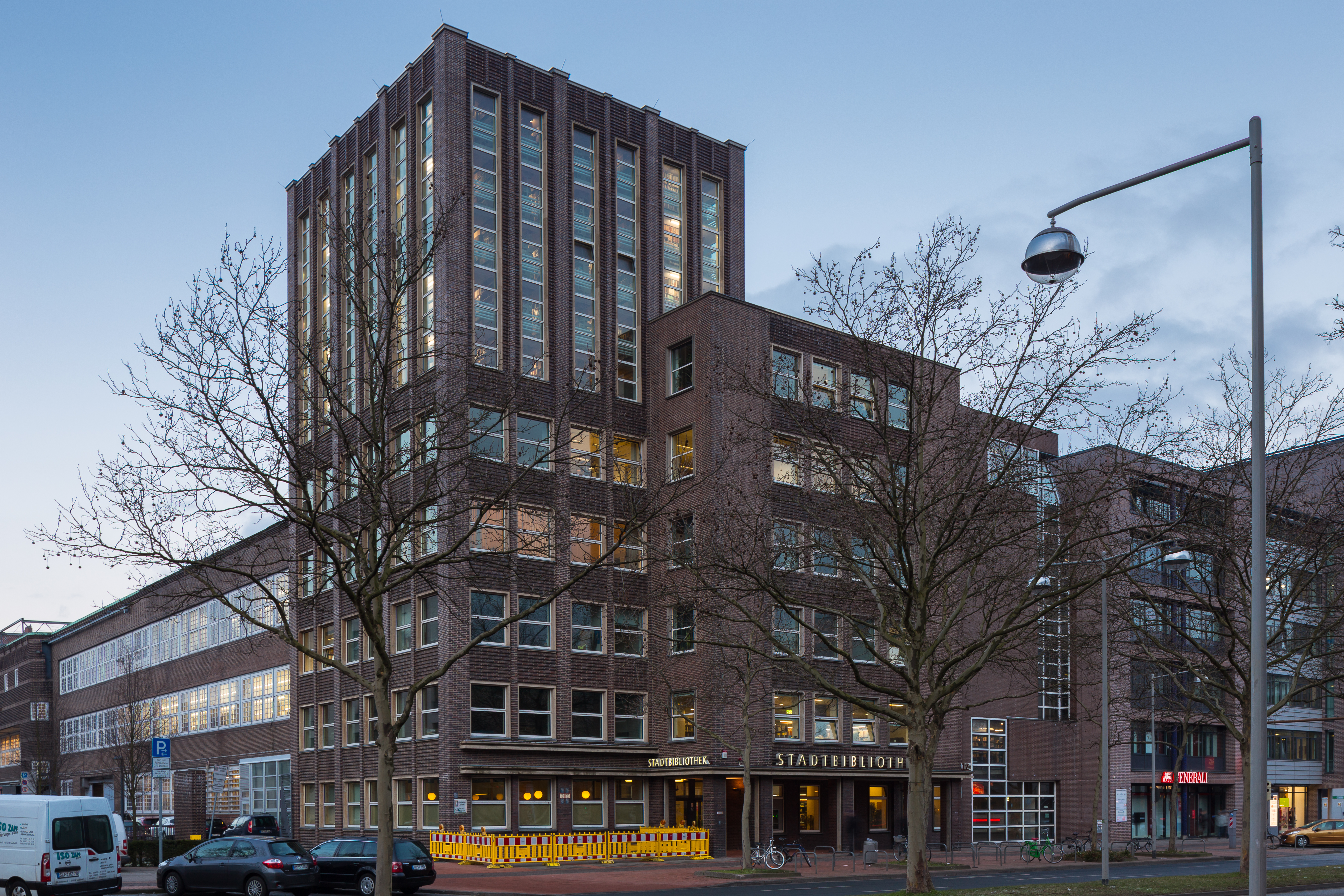 Public library of Hannover located at Hildesheimer Strasse no. 12 in Suedstadt district of Hanover, Germany.